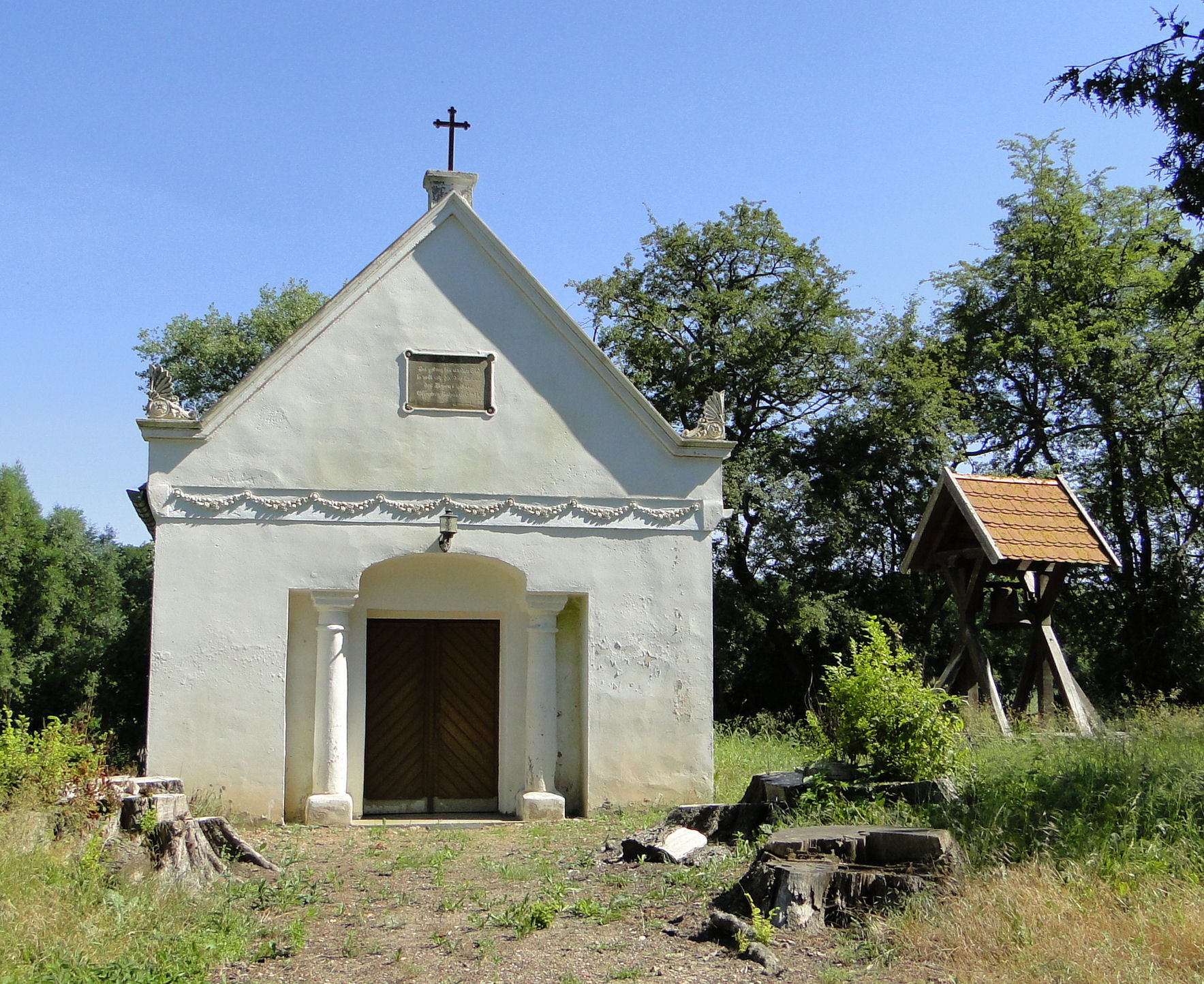 Chapel in Galenbeck, district Demmin, Mecklenburg-Vorpommern, Germany